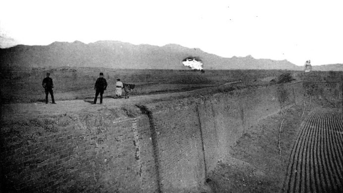 Image from La Chine à terre et en ballon.